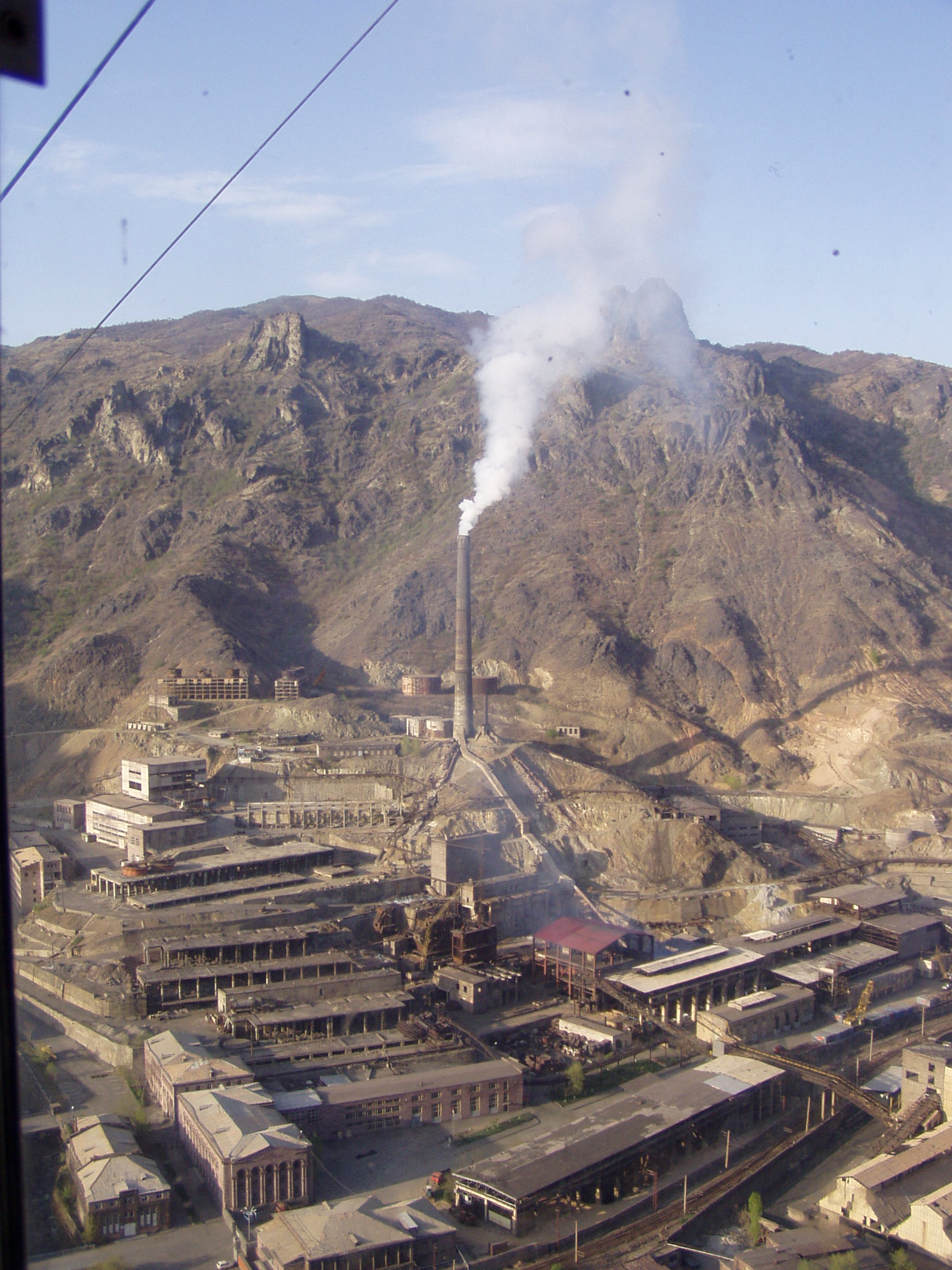 Alaverdi. Copper combine.